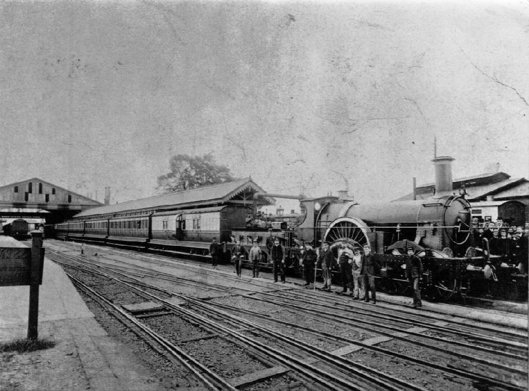 GWR Rover Class Dragon at Taunton working the last broad gauge train from London to Penzance, 20 May 1892.